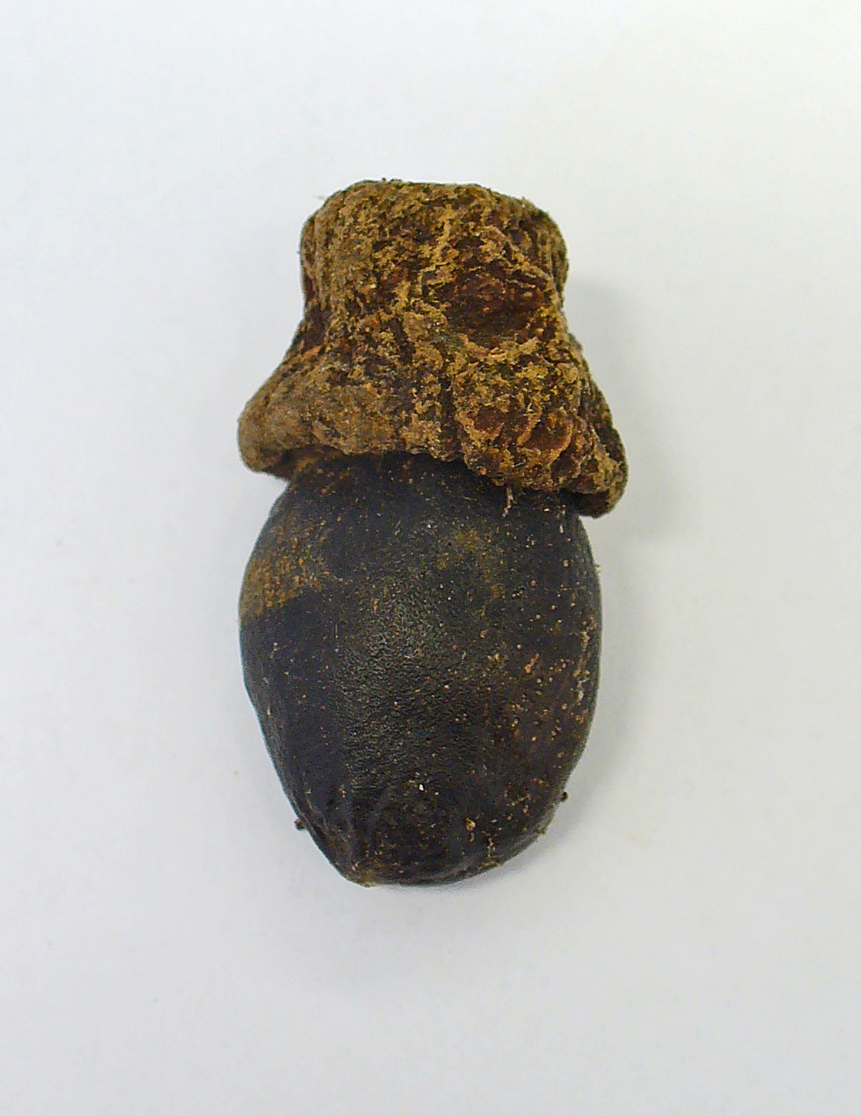 Semecarpus anacardium, Anacardiaceae, Oriental Anacardium, dried fruit. The dried fuits are used in homeopathy as remedy: Anacardium / Anacardium orientale(Anac.)